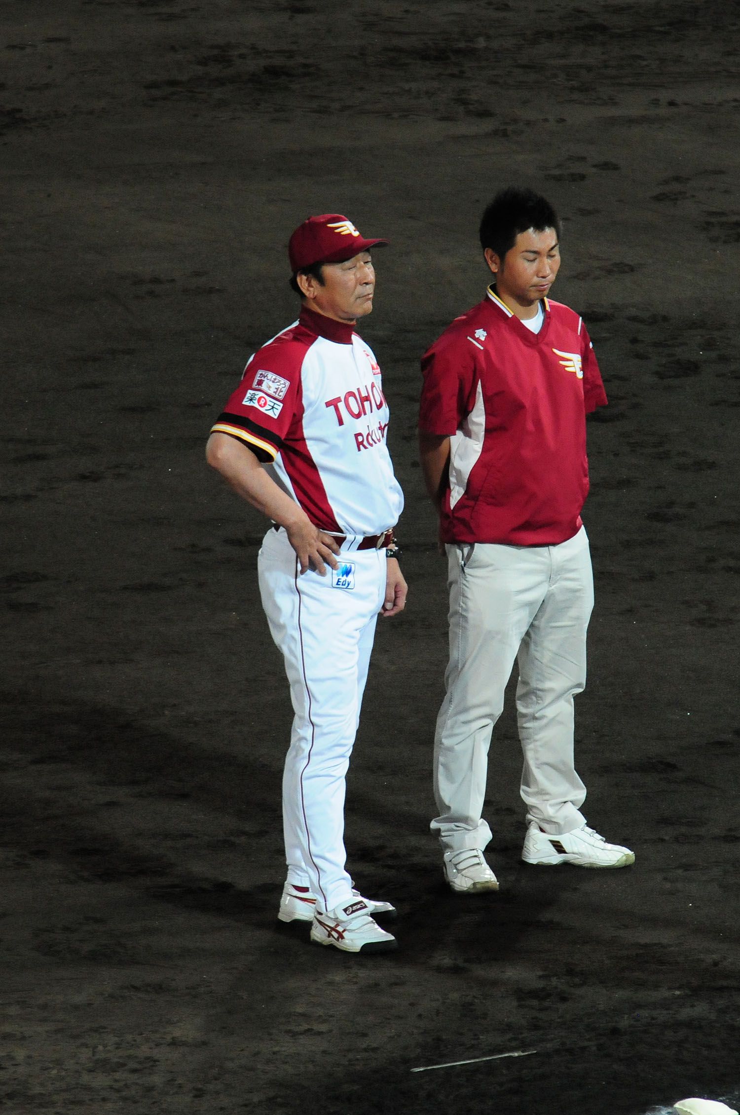 Yoshinori Sato, coach of the Tohoku Rakuten Golden Eagles, at Akita Prefectural Baseball Stadium.